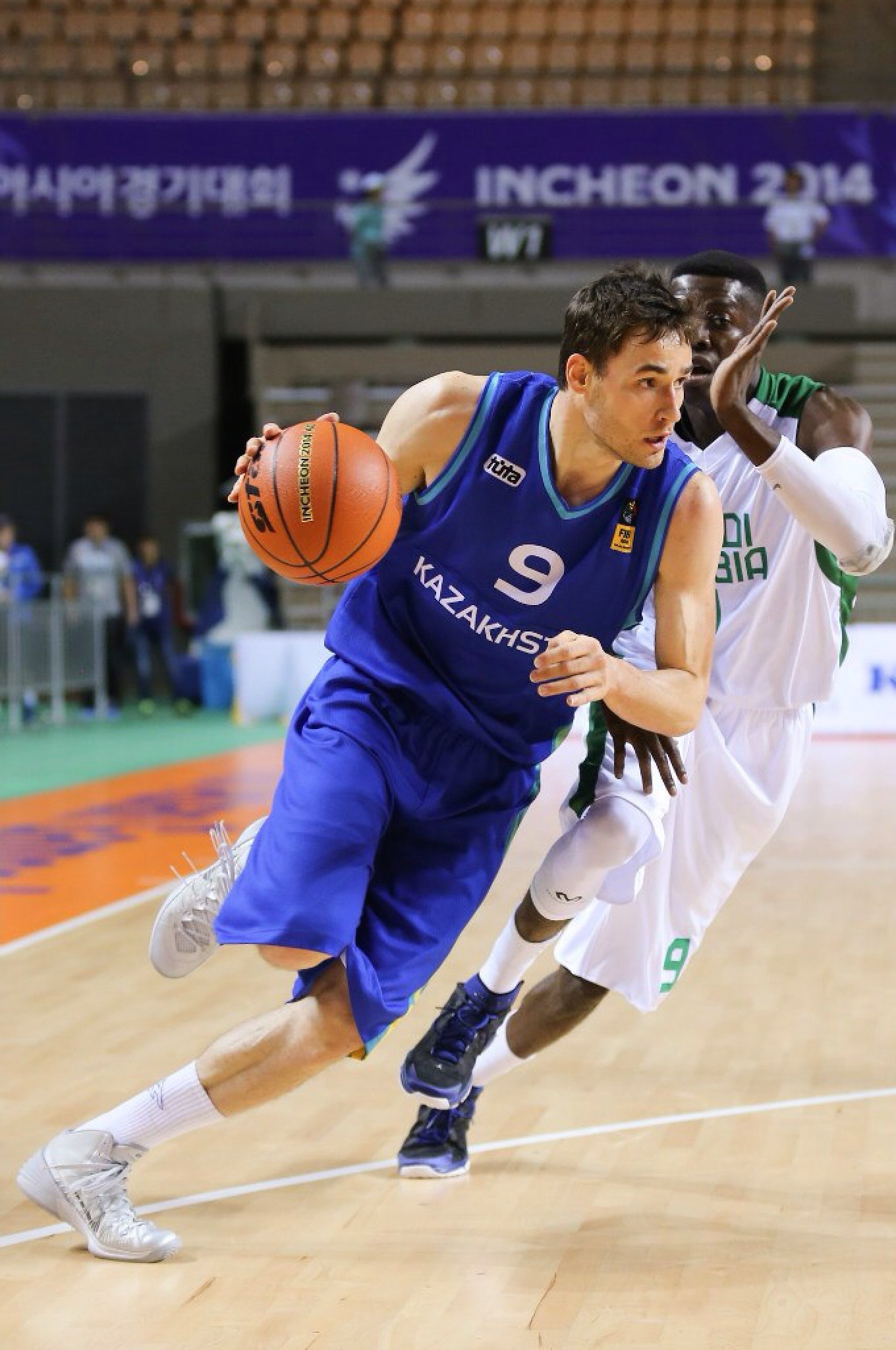 Anatoly Bose at the 2014 Asian Games in Incheon, South Korea